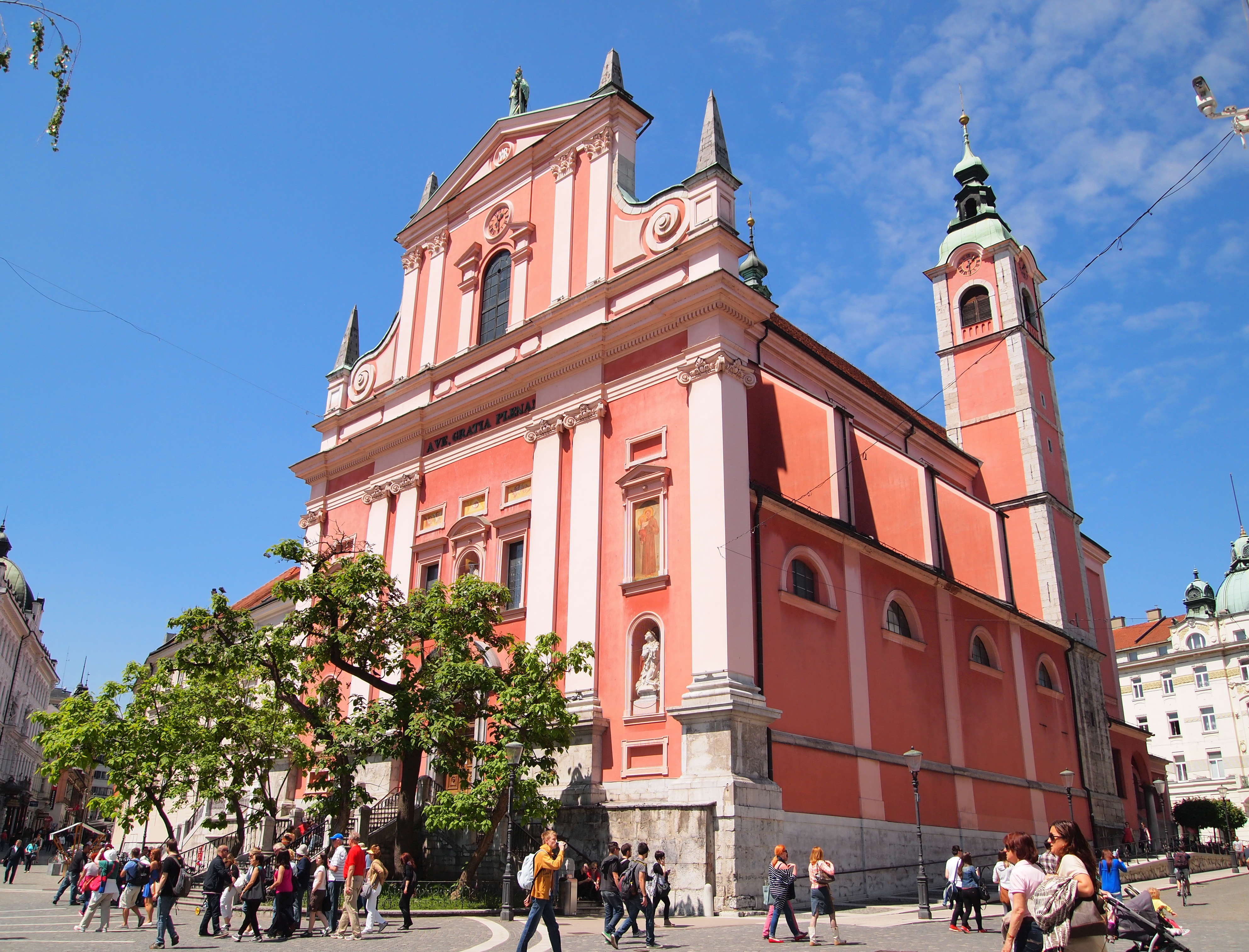 Annunciation Church in Ljubljana. This photograph was taken with a Olympus E-PL1.